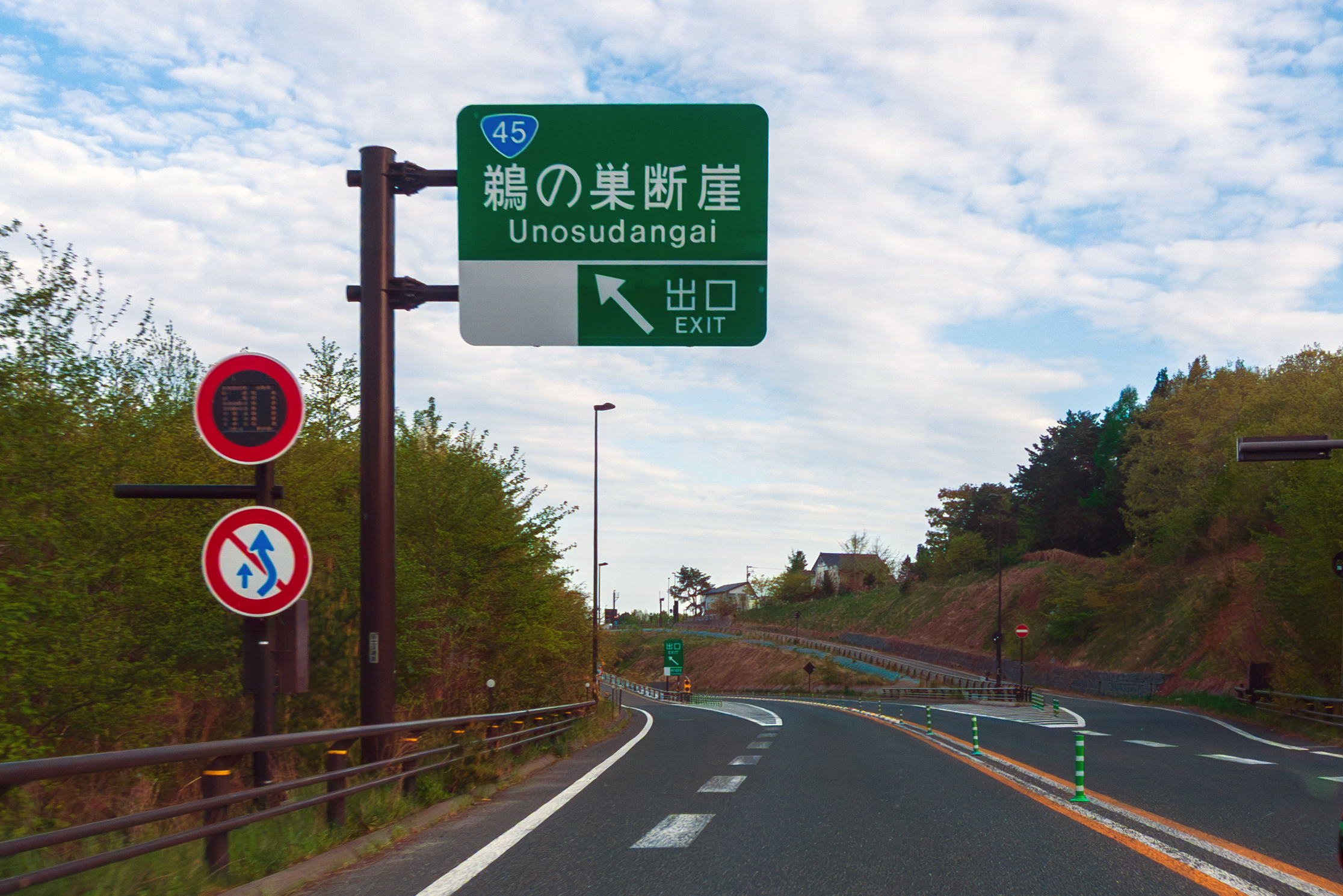 Unosudangai Interchange on the Sanriku-Kita Road in Tanohata Village, Iwate Prefecture, Japan